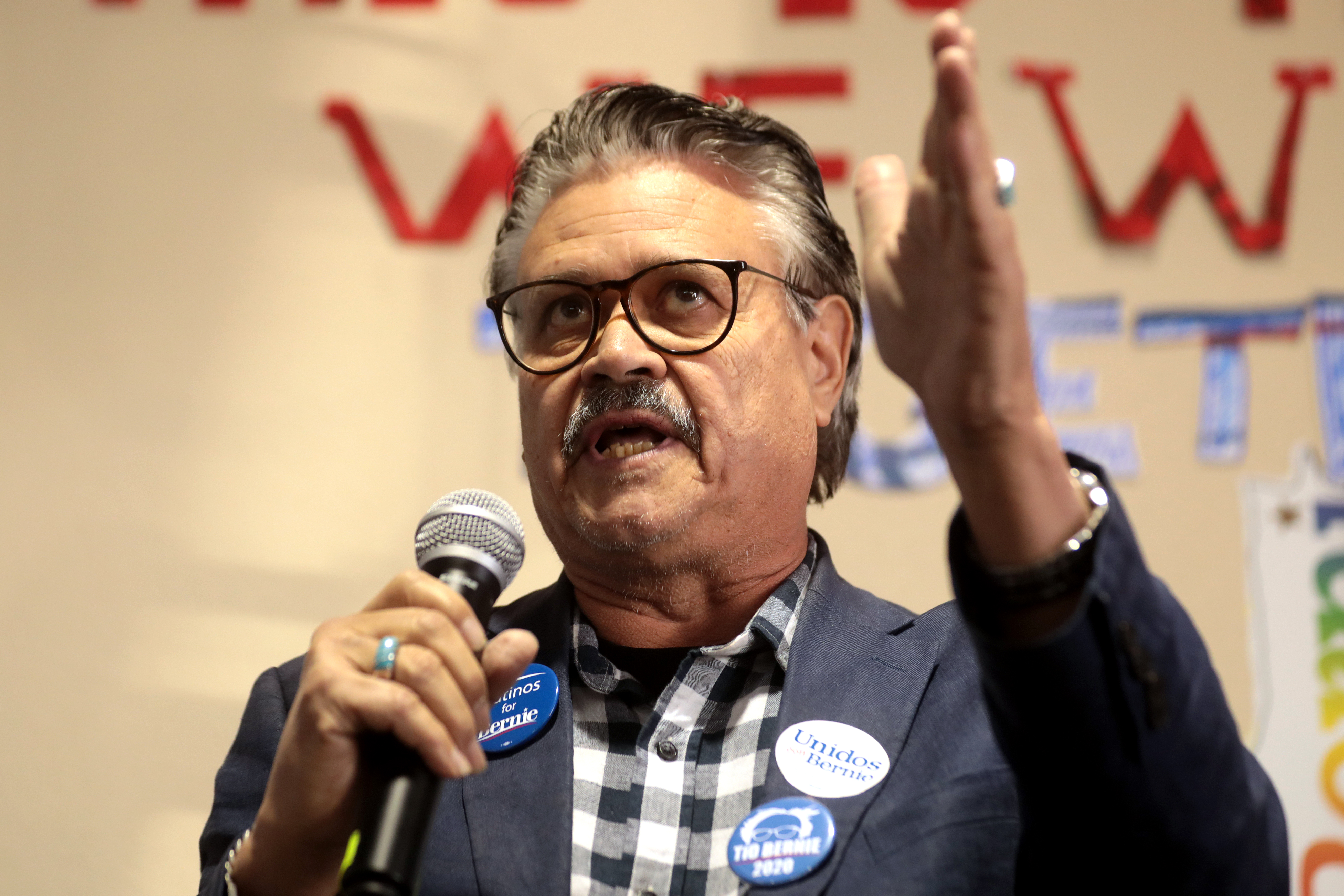 Jose La Luz speaking with supporters of U.S. Senator Bernie Sanders at a canvass launch at the Bernie Sanders for President southwest campaign office in Las Vegas, Nevada.